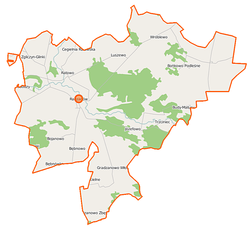 Map of Gmina Radzanów, Poland This map of Radzanów (gmina w powiecie mławskim) was created from OpenStreetMap project data, collected by the community. This map may be incomplete, and may contain errors. Don't rely solely on it for navigation. Border coordinates52.998520.0195←↕→20.254052.8679